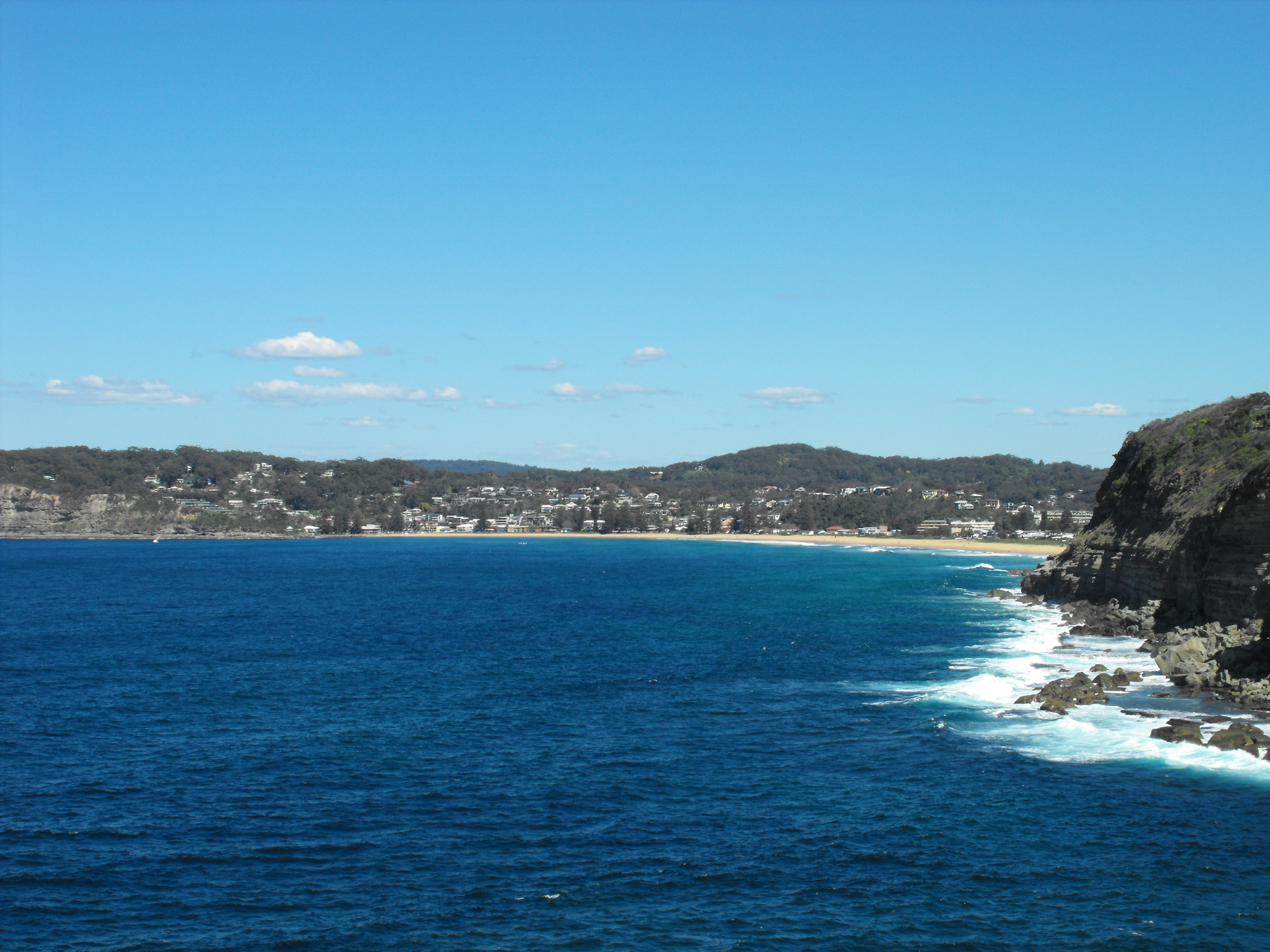 Avoca Beach, as seen from the Skillion